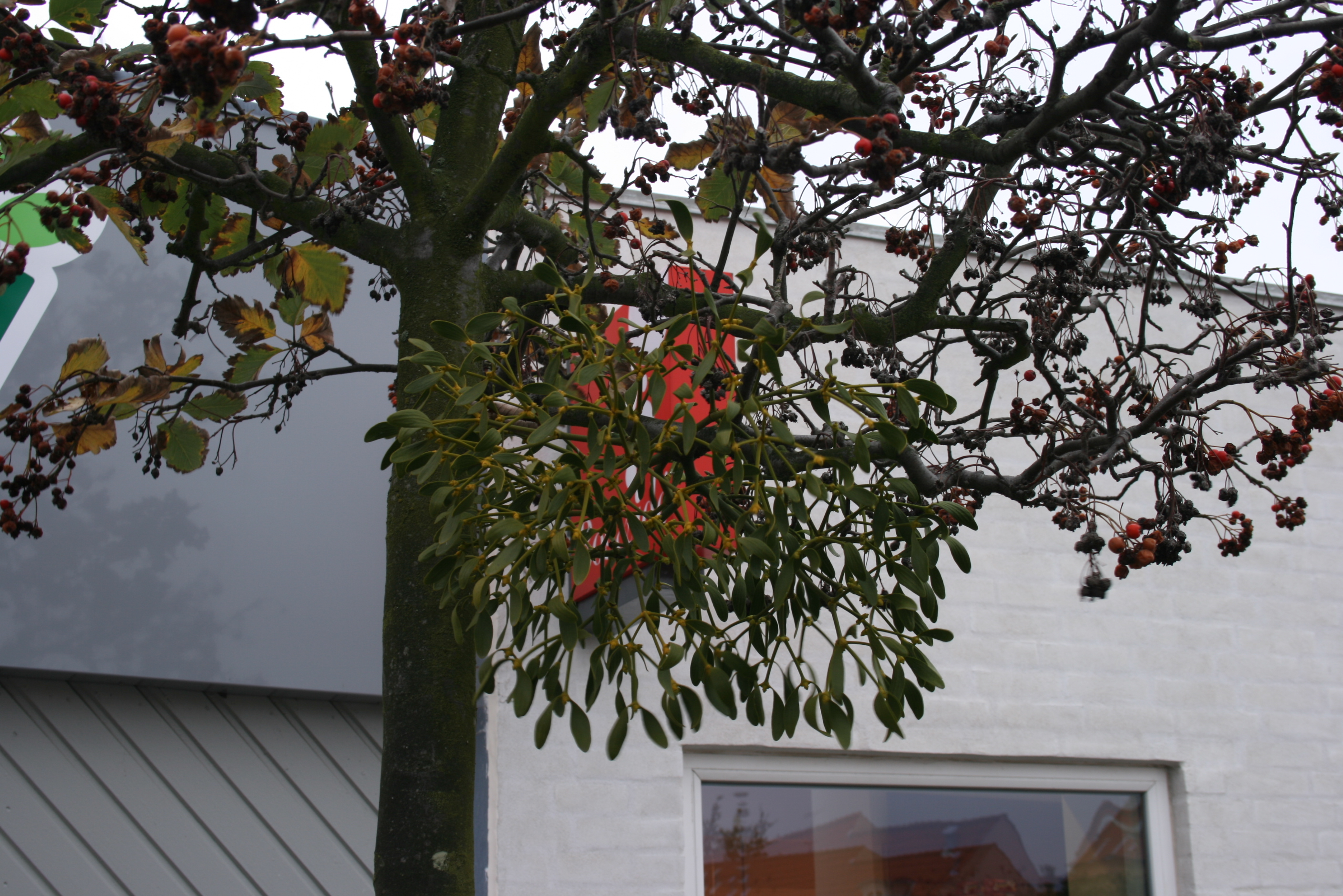 Viscum album on a Sorbus intermedia.